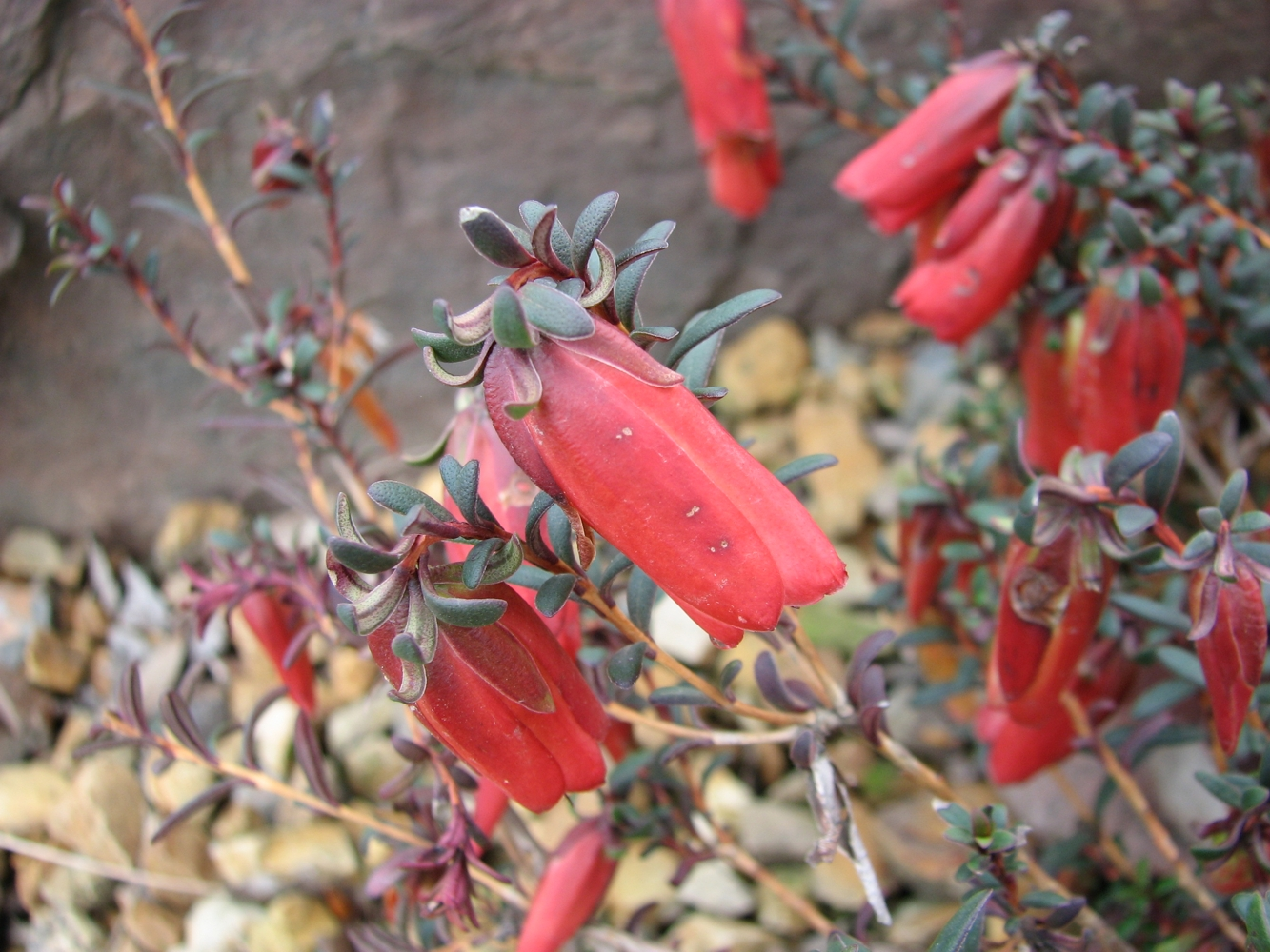 Darwinia hypericifolia (cultivated, labelled) Australian Garden, Royal Botanic Gardens Cranbourne, Victoria, Australia